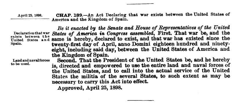 CHAP. 189.-An Act Declaring that war exists between the United States of America and the Kingdom of Spain.